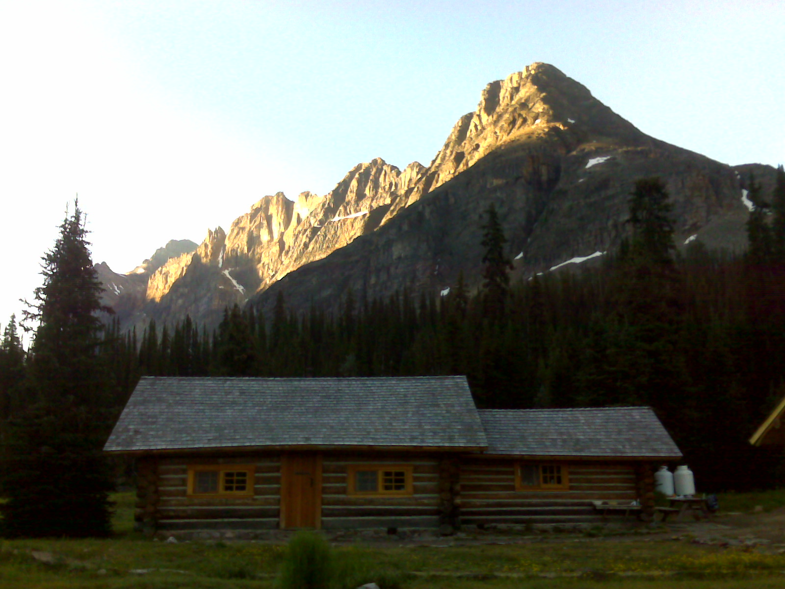 The Elizabeth Parker hut, with Mount Shaeffer in the background. I took this photo using a Blackberry Curve.